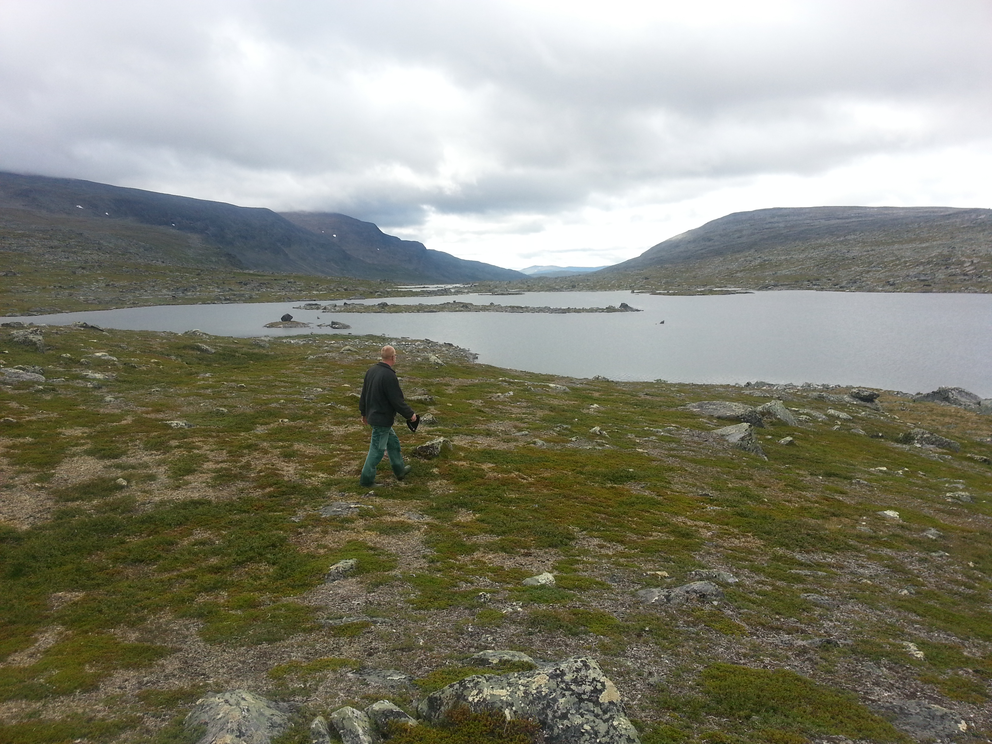 Lake Njalakjaure in Sweden, summer 2013